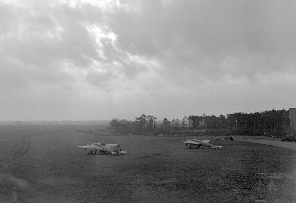 Two De Havilland Mosquito's at an RAF station somewhere in England